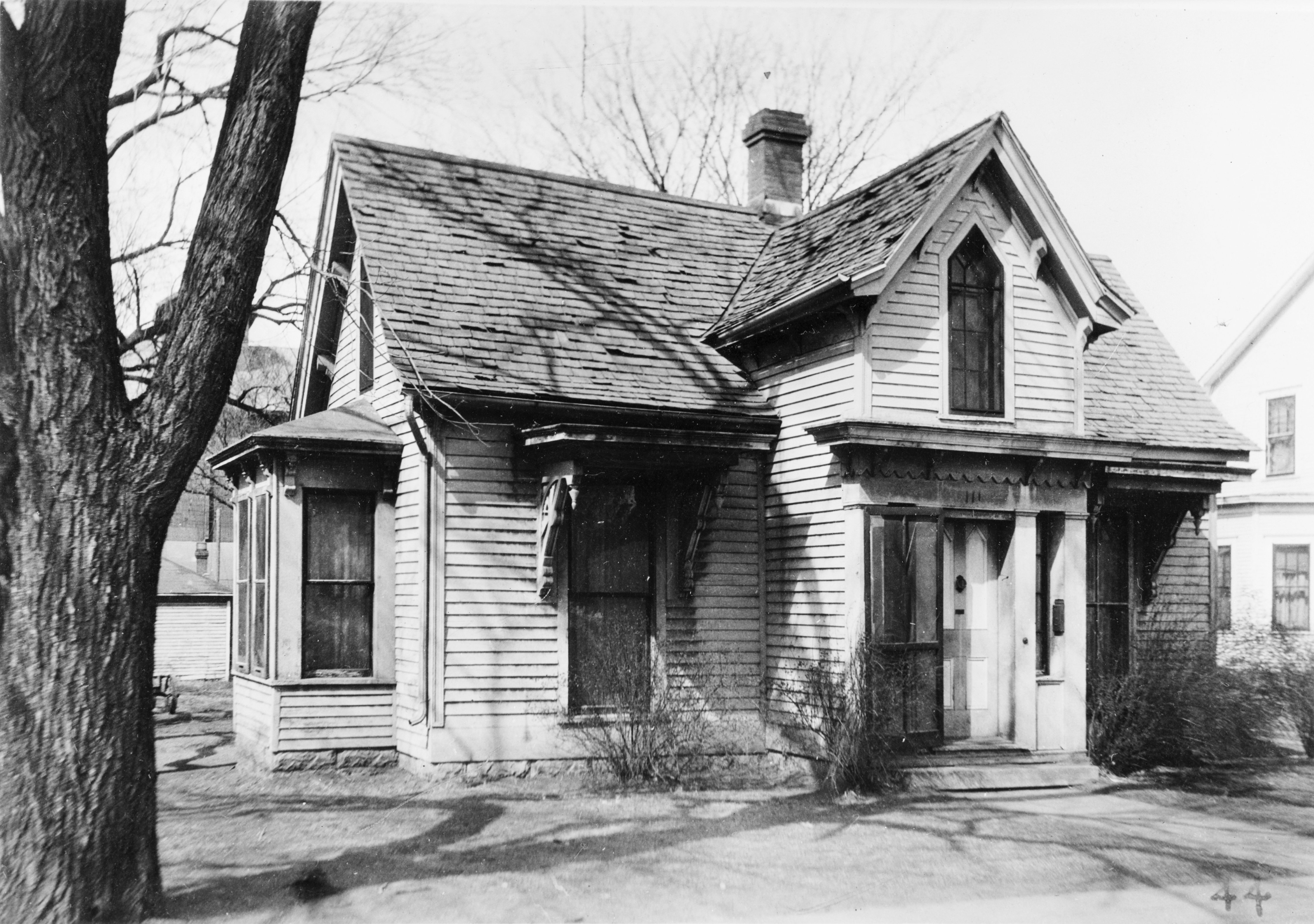 Mayo House, Le Sueur, Le Sueur County, MN. View Looking North West